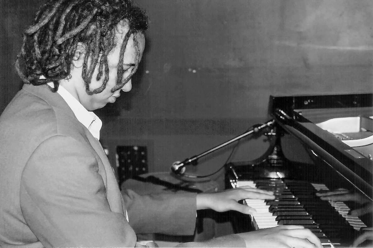 Gerald Clayton